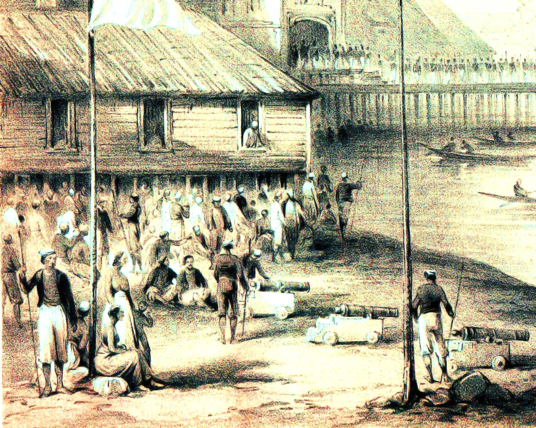 Verdediging van een kampong